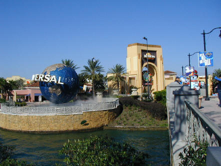 Taken in December 2004, this picture shows a walkway bridge (right) and the giant studio entrance (back) at Universal Studios Orlando. Source: Brandon Wholey, 2004.